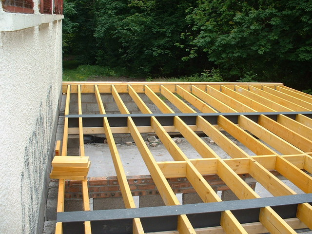 Kilbarchan Scout Hall, Barn Green, Kilbarchan The floor joists are fitted to steel I-beams on the interior and metal joist hangers on a wooden timbers at the exterior. The blocking (dwang, nogging) are being installed between the joists.